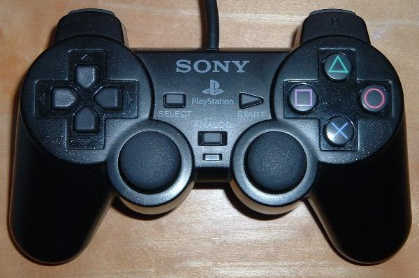 Sony's DualShock 2 controller (taken on 11/11/2004).